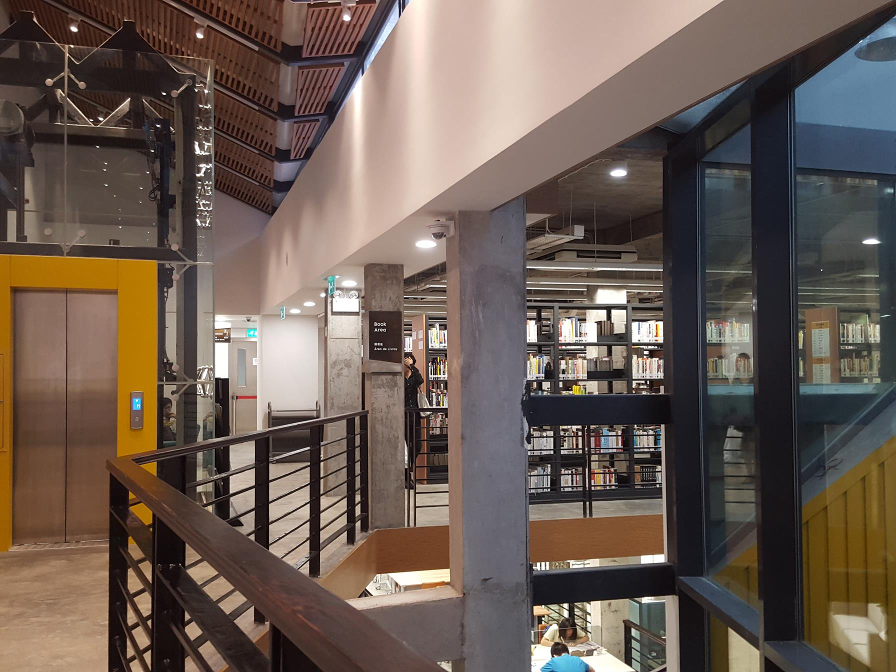 Patane Library, Macau